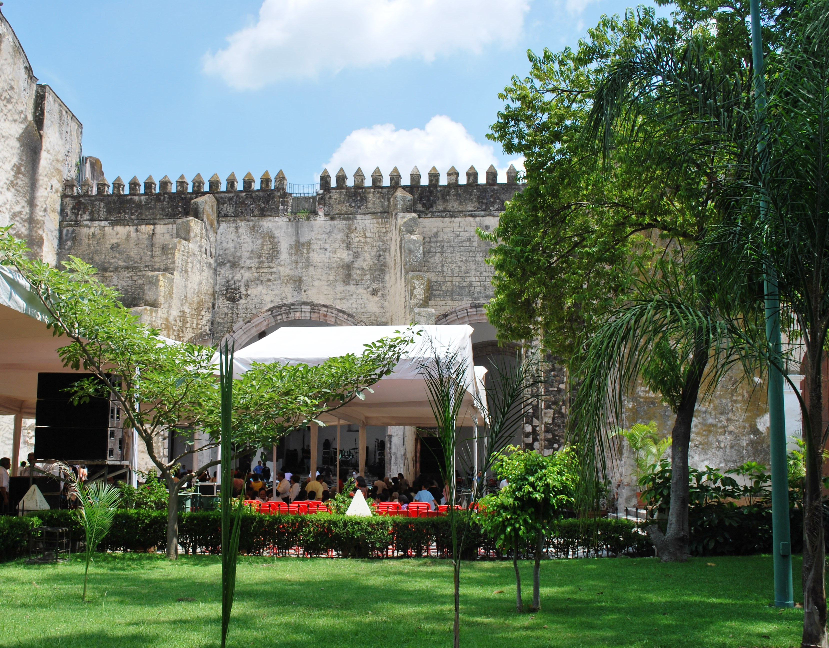 The "Capilla Abierta" or open-air chapel of the Cathedral of Cuernavaca being used as a concert venue. In Cuernavaca, Morelos, Mexico